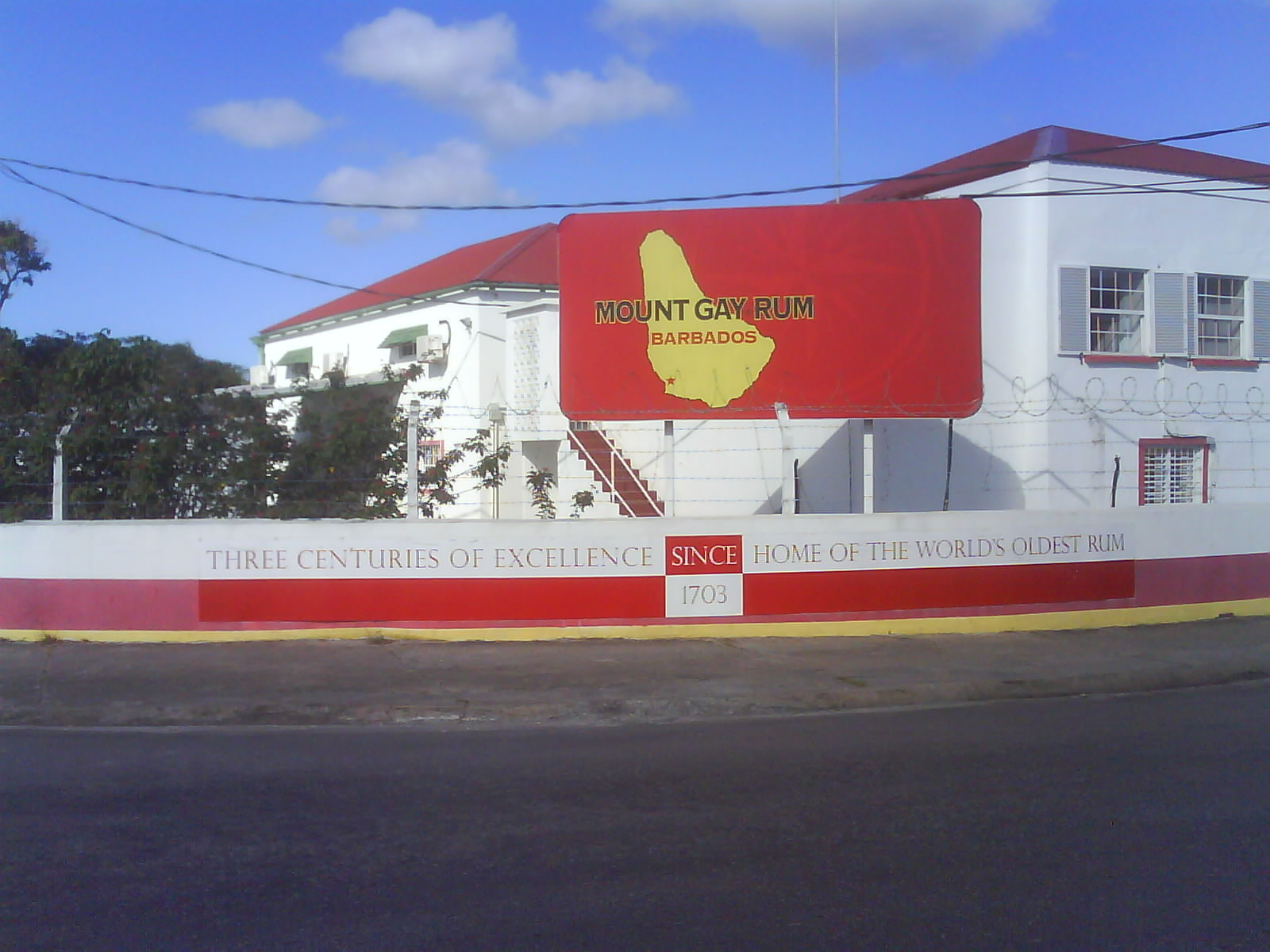 Mount Gay Rum Visitors Centre in Barbados, as situated along the Spring Garden Highway near Brighton's Beach. It claims to be the oldest remaining Rum company in the world with the earliest surviving deed from 1703.